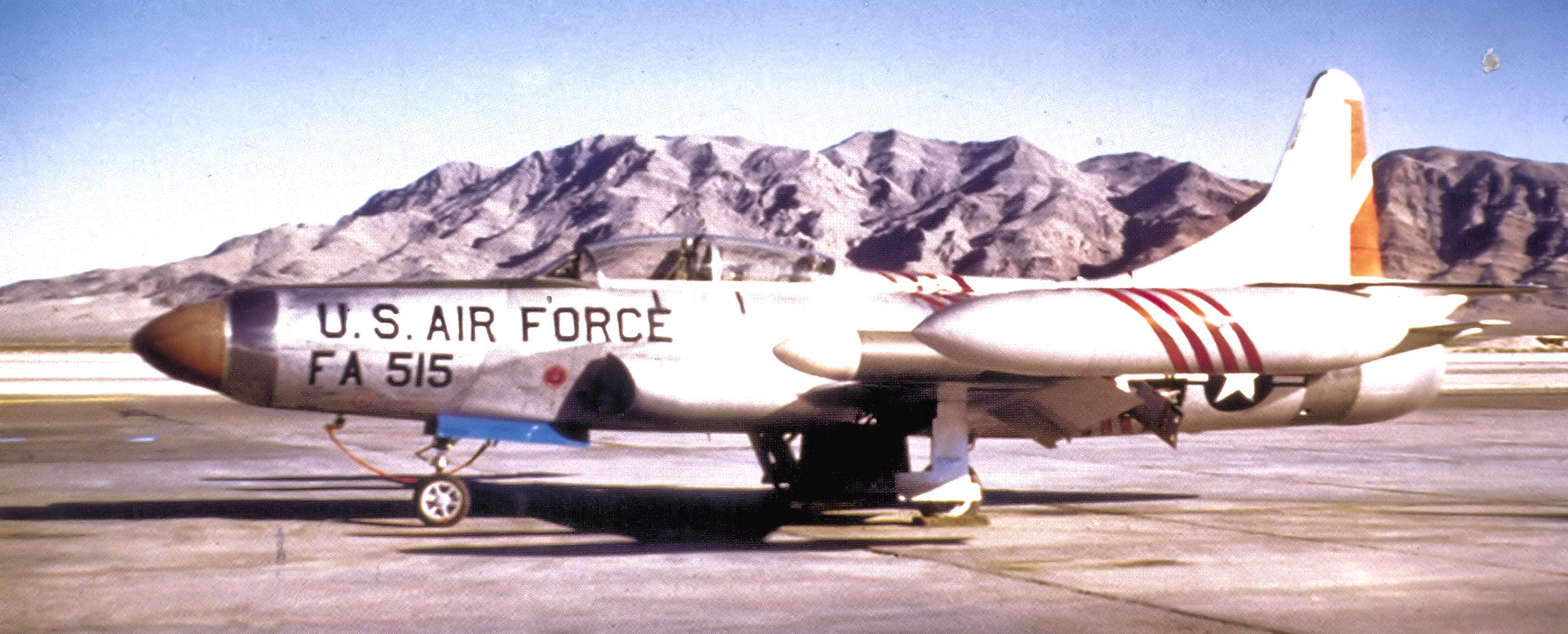 332d Fighter-Interceptor Squadron Lockheed F-94C-1-LO Starfire 51-5515 1954 Statoined at New Castle Airport, Delaware. Shown at Nellis AFB, Nevada